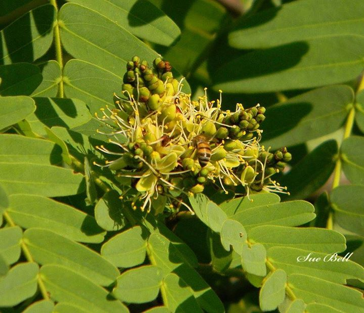 Flowers and foliage of Brachystegia boehmii Taub., growing in Harare, Zimbabwe